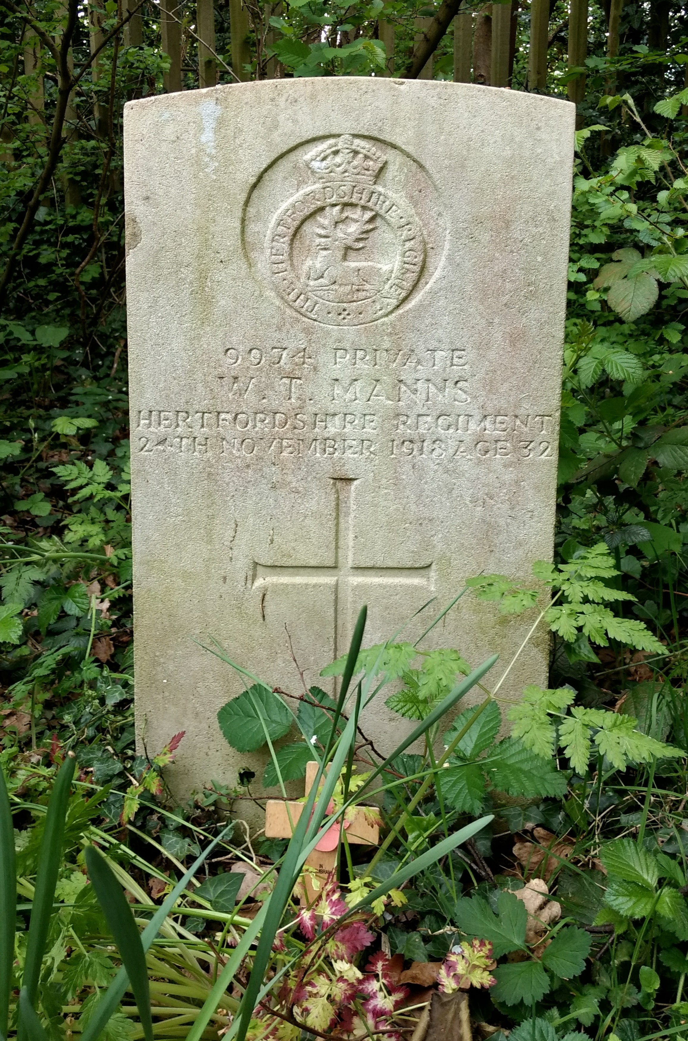 CWGC headstone in the parish churchyard of St James the Great, Friern Barnet, Middlesex in memory of Pte William Manns, Hertfordshire Regt, who died on 24 November 1918, aged 32